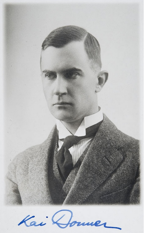 Photograph of the Finnish linguist and anthropologist Kai Donner (1888–1935).